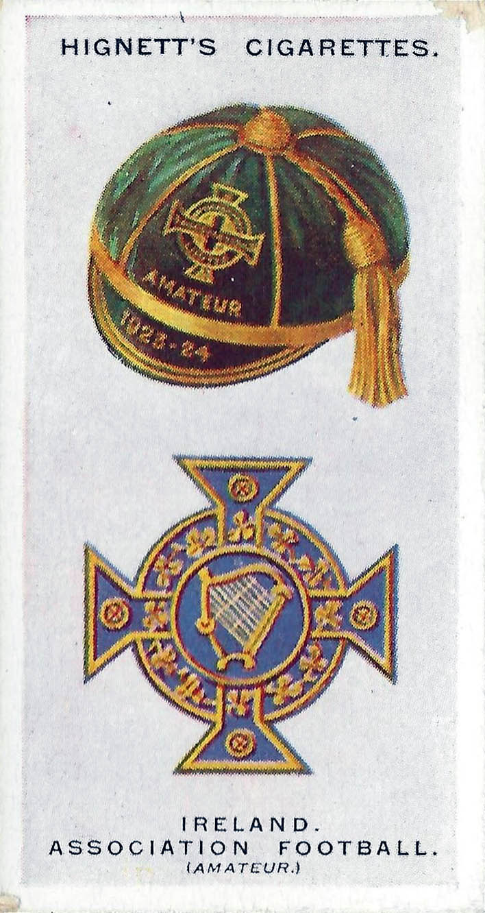 Cigarette card from the collection "international caps and badges": Ireland association football